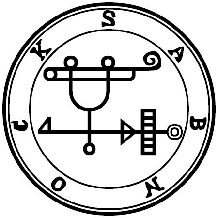 Sabnock seal, THE BOOK OF THE GOETIA OF SOLOMON THE KING (1904)